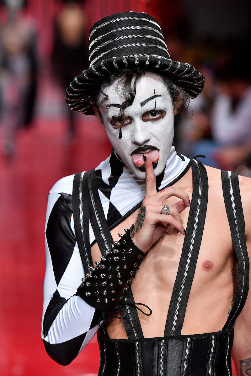 Fernando Cozendey's presentation at the 45th edition of the Casa de Criadores event